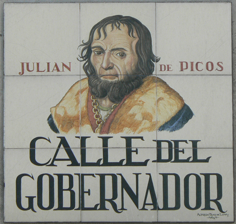 Sign of Calle del Gobernador (street, Centro district) in Madrid (Spain).